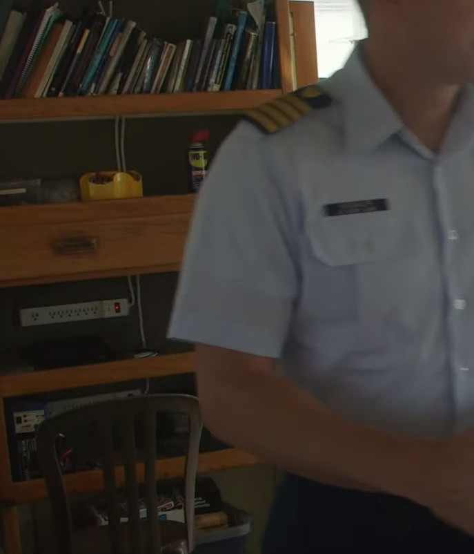 Still frame from the NTSB tour of Vision, a sister ship to Conception. This image shows the aft part of the salon in the main deck cabin. The emergency exit hatch is in the cabinet between the officials taking the tour. Also, power strips can be seen in the bookcases lining the aft wall.